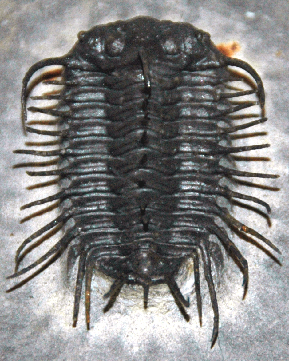 Isoprusia tafilaltana Alberti, 1976 fossil trilobite (often referred to by its junior synonym Koneprusia brutoni Alberti, 1983) from the Devonian of Morocco (public display, FMNH PE 60833, Field Museum of Natural History, Chicago, Illinois, USA). Some polymeroid trilobites evolved extremely spinose bodies, especially odontopleurids and some lichids. Here's an example of a spinose odontopleurid trilobite. Classification: Animalia, Arthropoda, Trilobita, Polymerida, Odontopleurida, Odontopleuridae, Koneprusiinae Provenance: lower Hamar Laghdad Formation, middle Lower Devonian); Tafilalt, southeastern Morocco